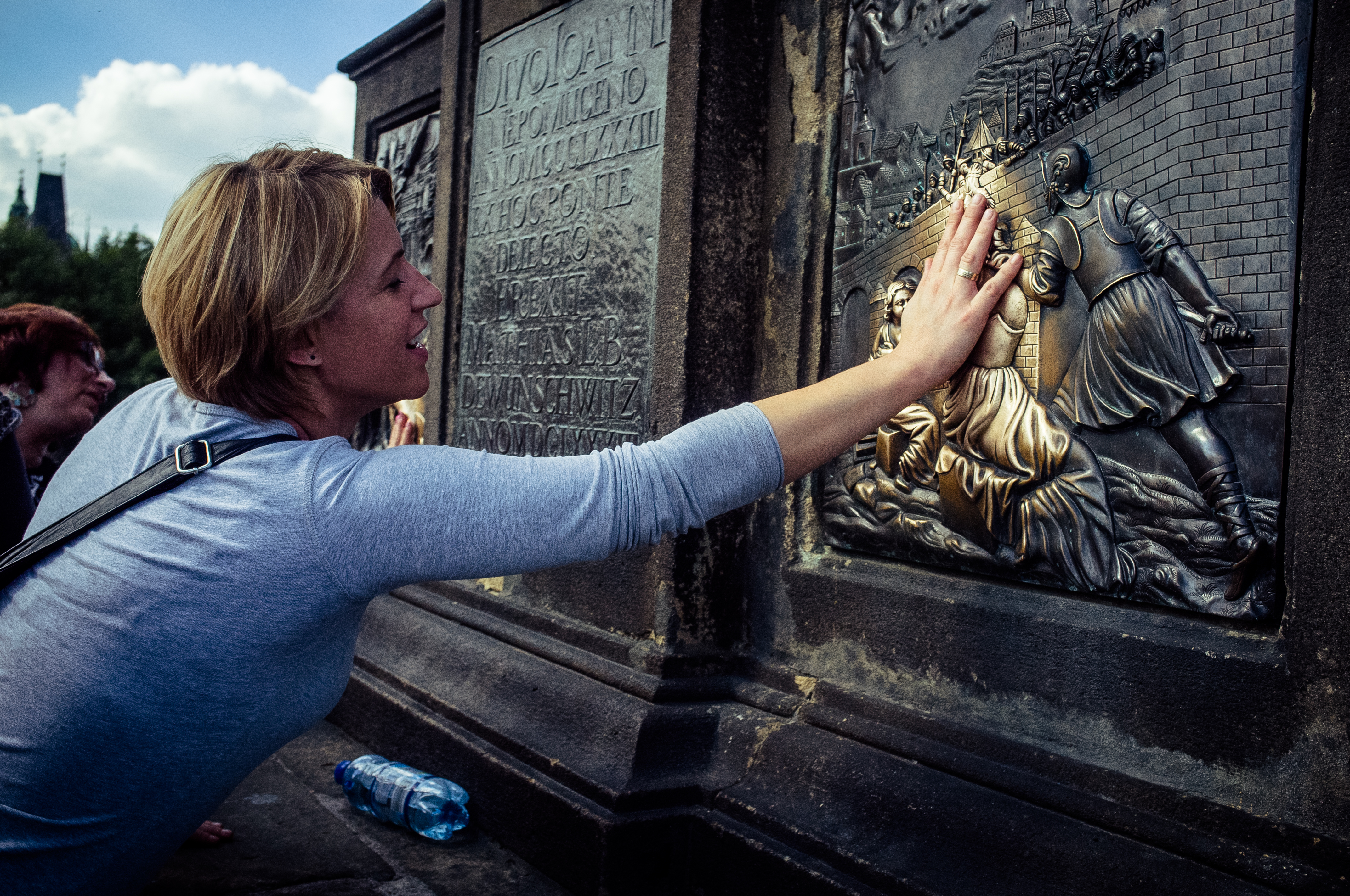 Plaque at the statue of John of Nepomuk on Charles Bridge. Touching the falling priest on the plaque is supposed to bring good luck and ensure your return to Prague. The plaques surface shines because of countless people touching it every day.